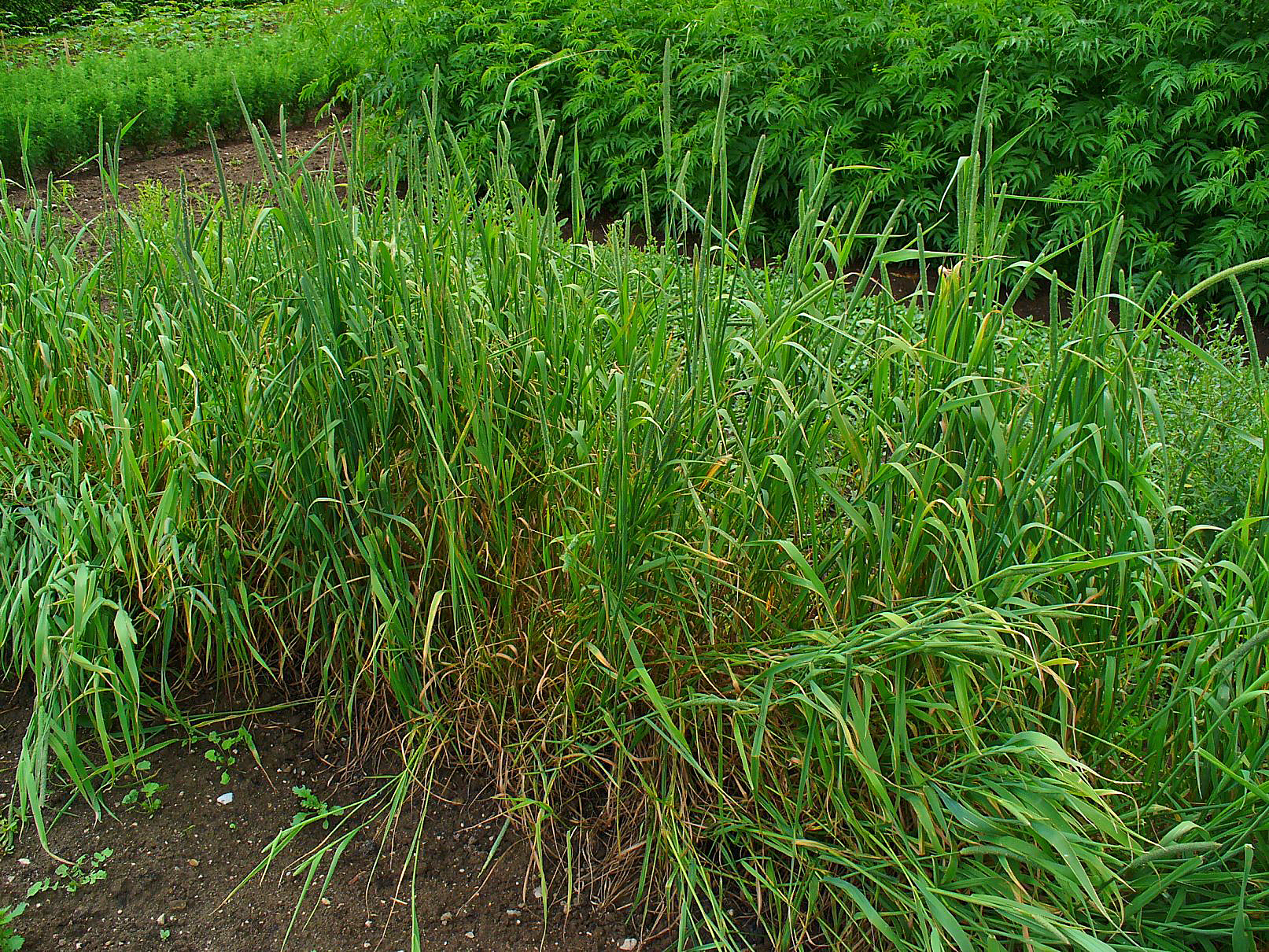 Phleum pratense, Poaceae, Timothy-grass, habitus.